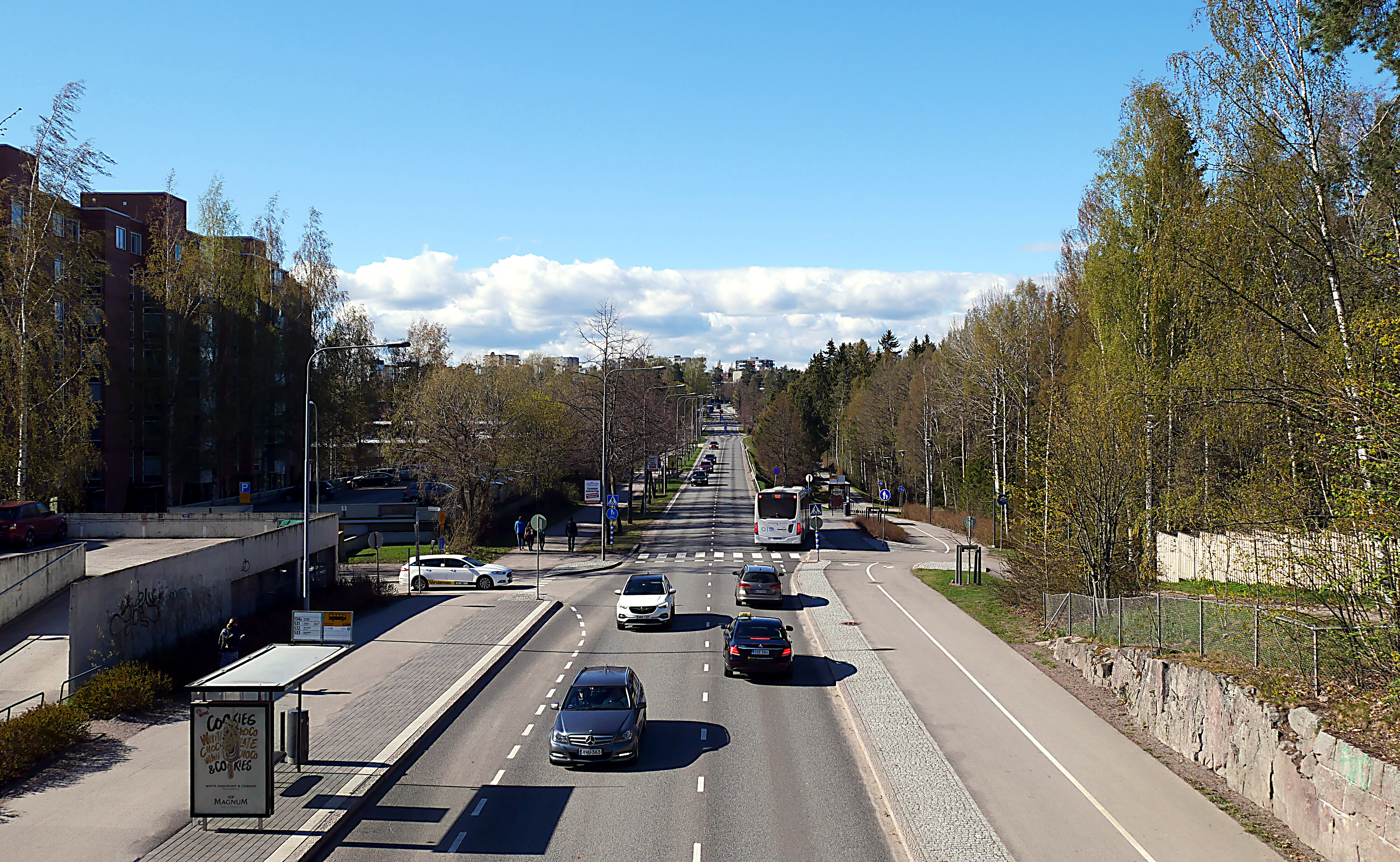 The street Olarinkatu in Espoo, Finland. Spring of 2019.